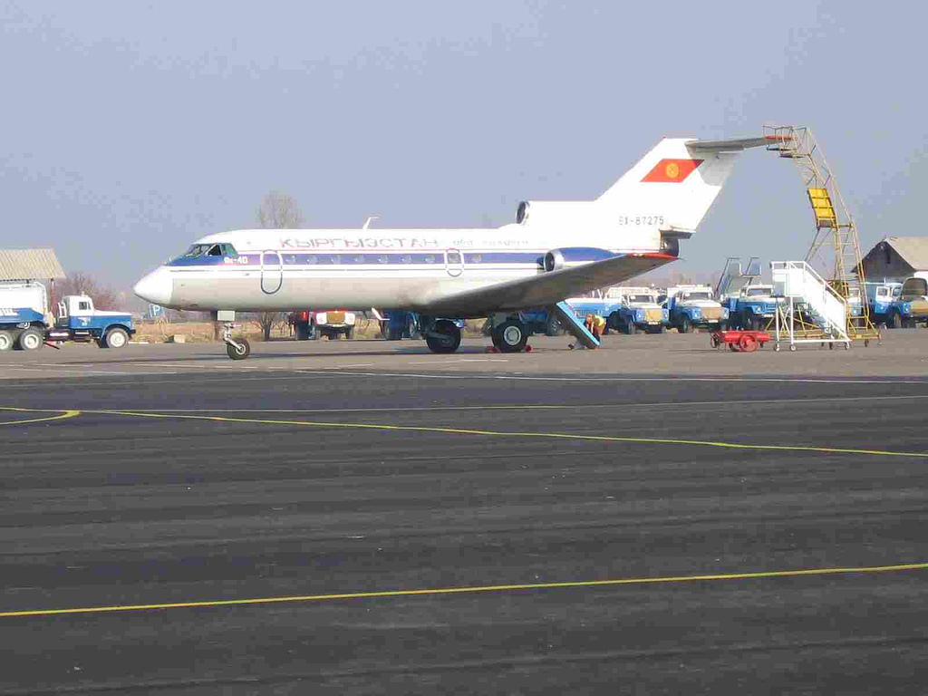 Aircraft at Osh airport in Kyrgyzstan.